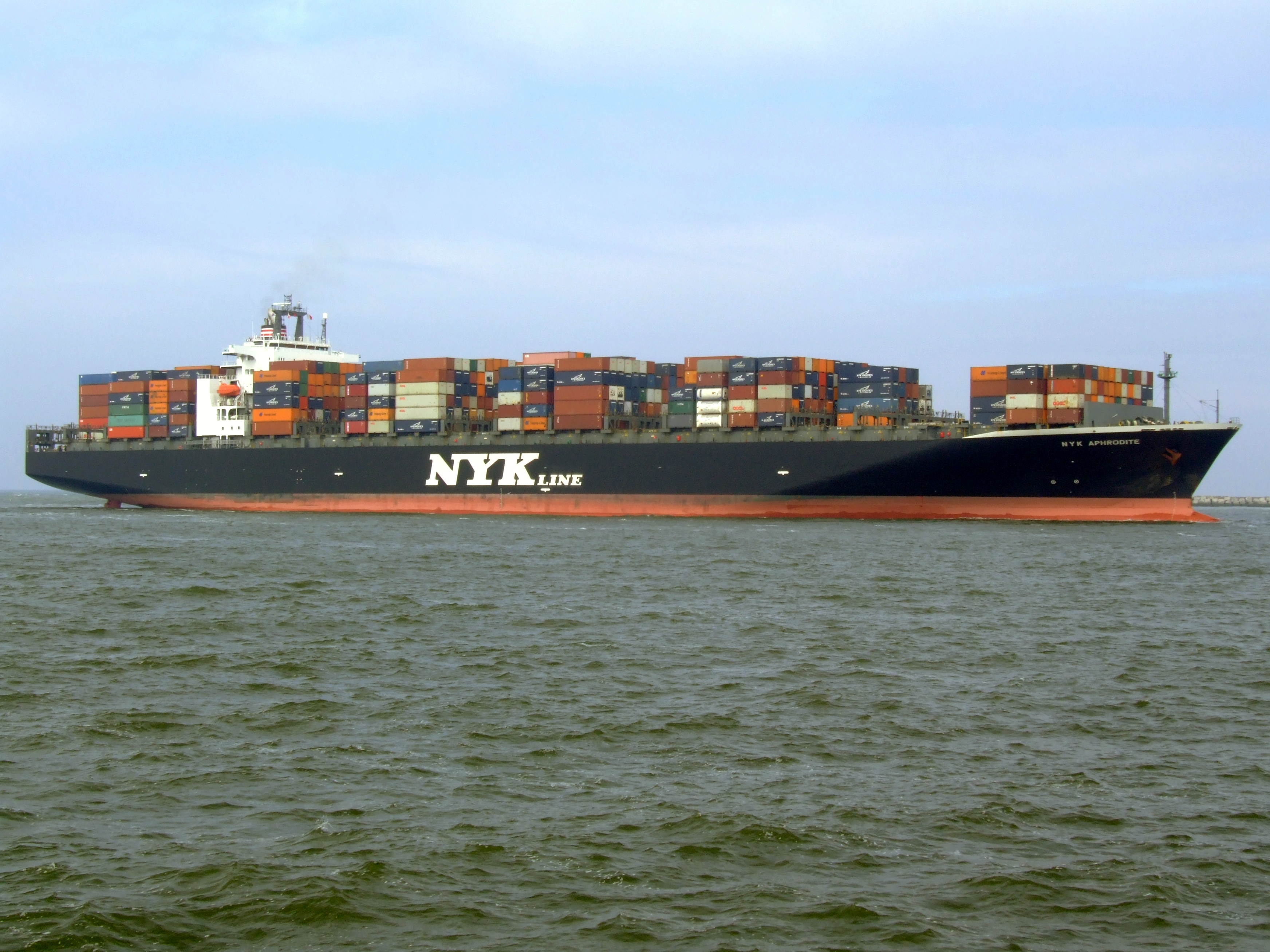 Nyk Aphrodite IMO 9247754 approaching Port of Rotterdam, Holland 09-Apr-2007.